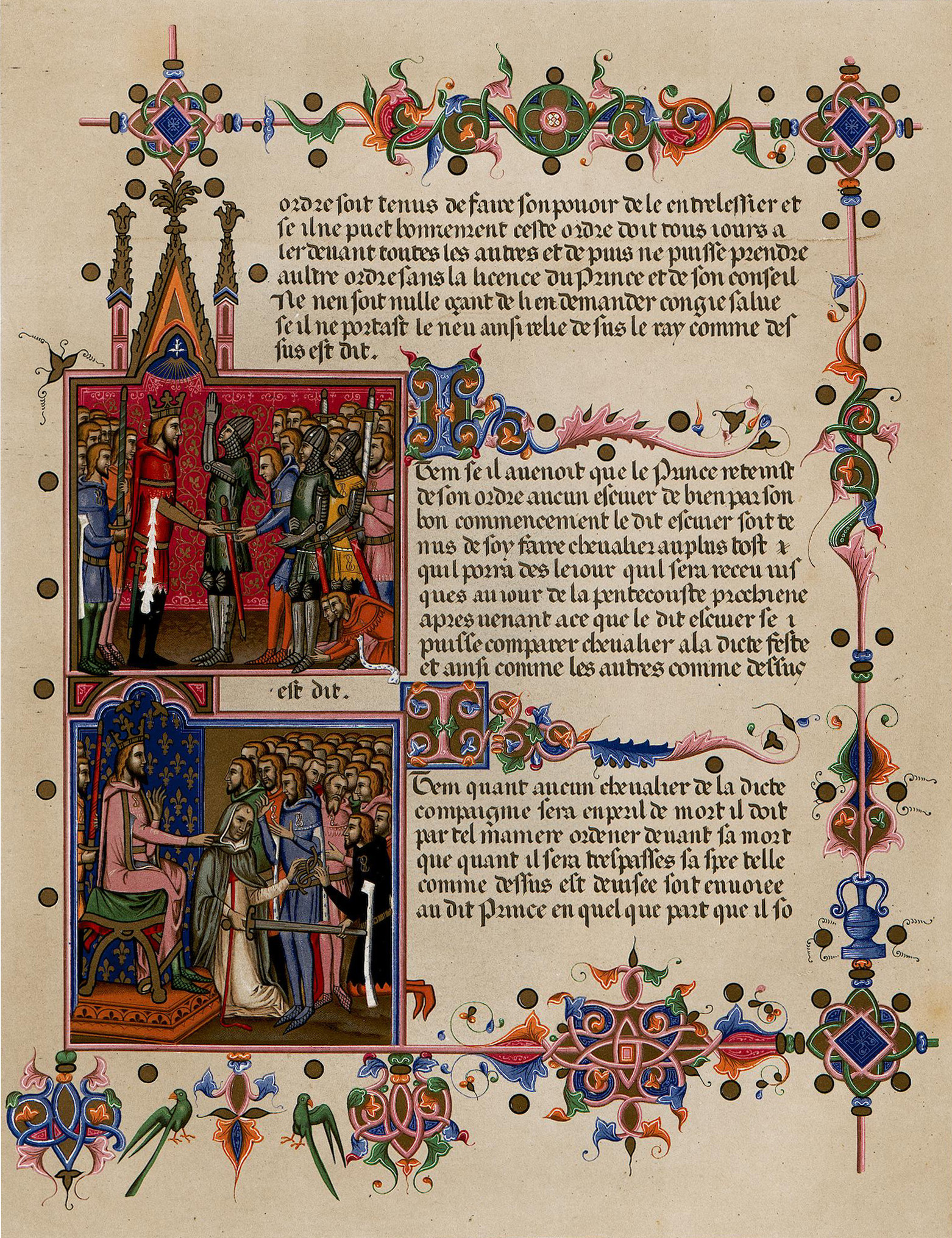 Page of a 19th-century facsimile of the the statutes of the "Order of the Knot" (L’ordre du Nœud ou ordre du Saint-Esprit au Droit Désir), BNF Fr 4274, fol. 8v. The page has two miniatures of King Louis I of Naples presiding over the order, one shows him in the investiture of new members, the other shows him enthroned and facing the assembled knights of the order. Original ms.: 17th-century facsimile